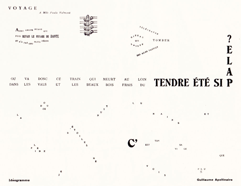 "Voyage", poem by Guillaume Apollinaire